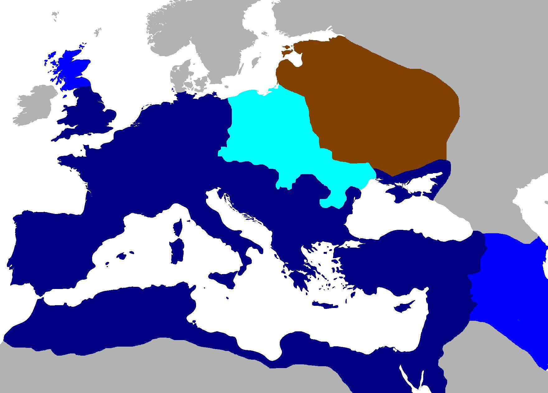 A map of Europe AD 2100 in the book Gunpowder Empire.